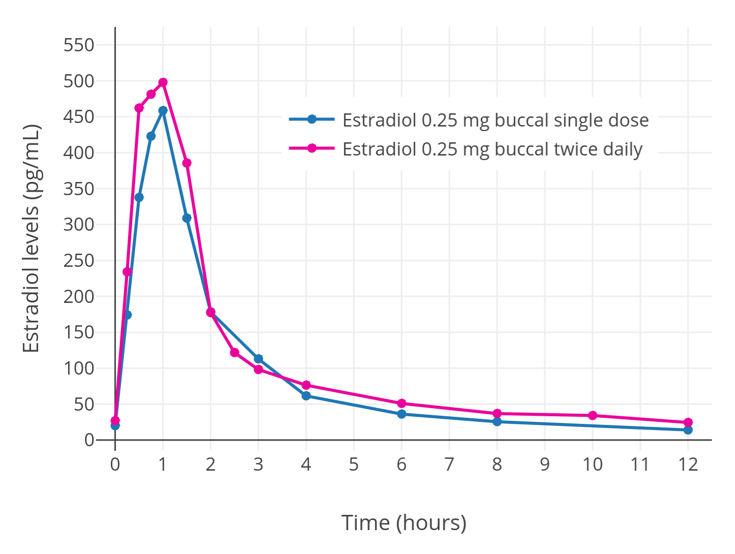 Levels of estradiol (pg/mL) on the first day after a single dose of 0.25 mg buccal estradiol or at steady state after the last dose during 0.25 mg twice daily (0.5 mg/day total) buccal estradiol therapy in 6 postmenopausal women. Estradiol was administered buccally in the form of a troche (lozenge). Additional information on the troche formulation: "Each troche (lozenge) contained 17β-estradiol (0.5 mg), progesterone (200 mg), testosterone (2.0 mg) and DHEA (10.0 mg). The excipients in the troche consisted of silica gel, acacia, sevia and polyethyleneglycol, with a wildberry flavor." Half a troche, containing 0.25 mg estradiol, was taken per dose. Source of the values: (June 2003). "Pharmacokinetics of estradiol, progesterone, testosterone and dehydroepiandrosterone after transbuccal administration to postmenopausal women". Climacteric 6 (2): 104–11. PMID 12841880.